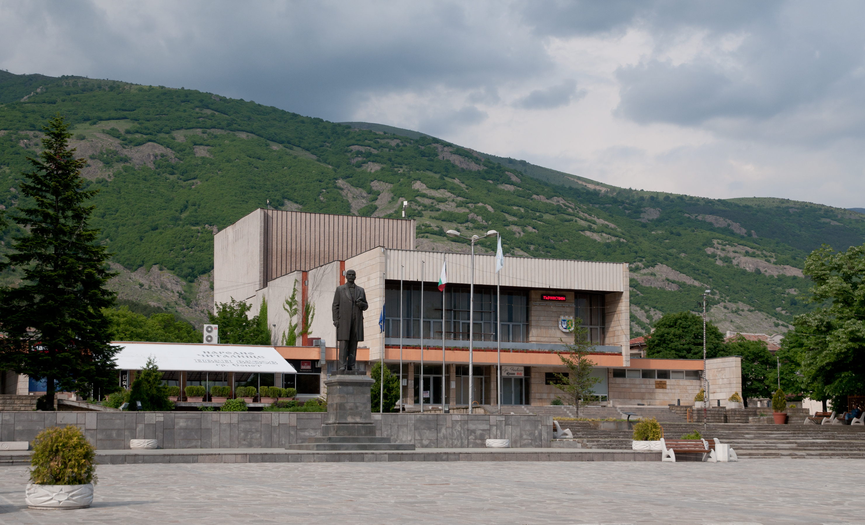 The monument to Ivan Vazov with the homonymous Cultural house (Chitalishte) at the central square of Sopot, Bulgaria.